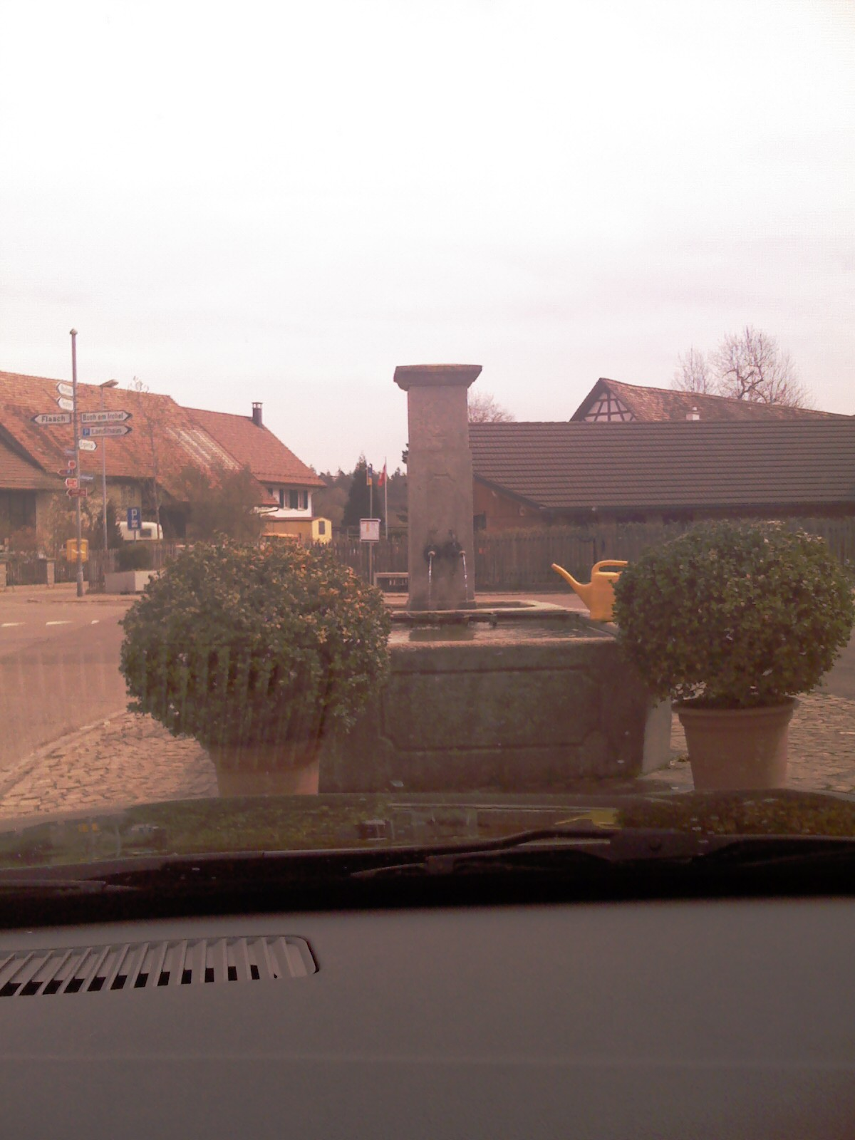 Village fountain at Berg am Irchel, Canton Zürich, SwitzerlandEsperanto: Vilaĝa puto en Berg ĉe Irchel, Kantono Zuriko, Svislando